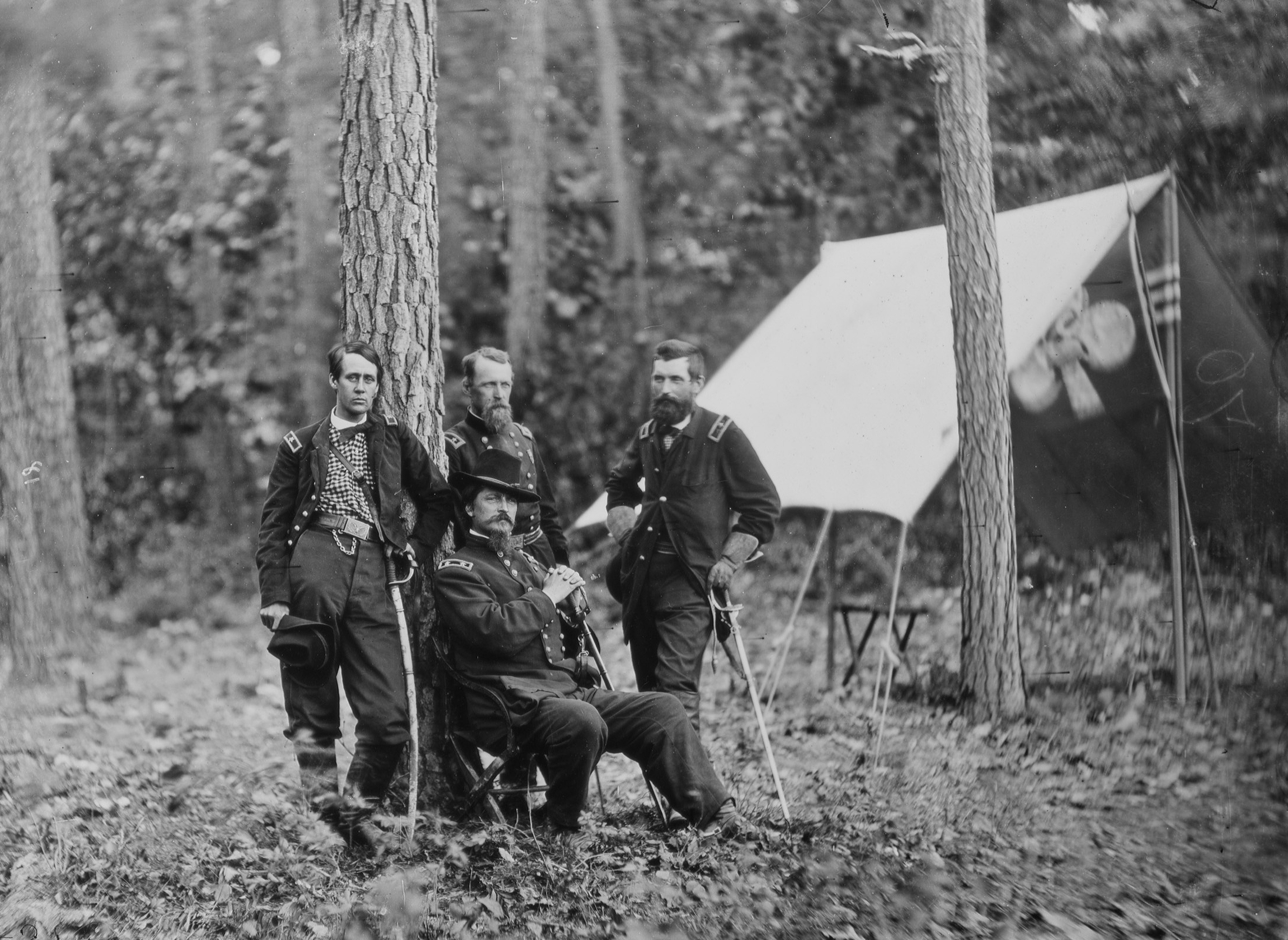 Photograph of Union Major General Winfield S. Hancock, commanding the Second Corps of the Army of the Potomac, and his division commanders during the Overland Campaign of the American Civil War. Standing, left to right, are Brigadier General Francis C. Barlow, Major General David B. Birney, and Brigadier General John Gibbon.